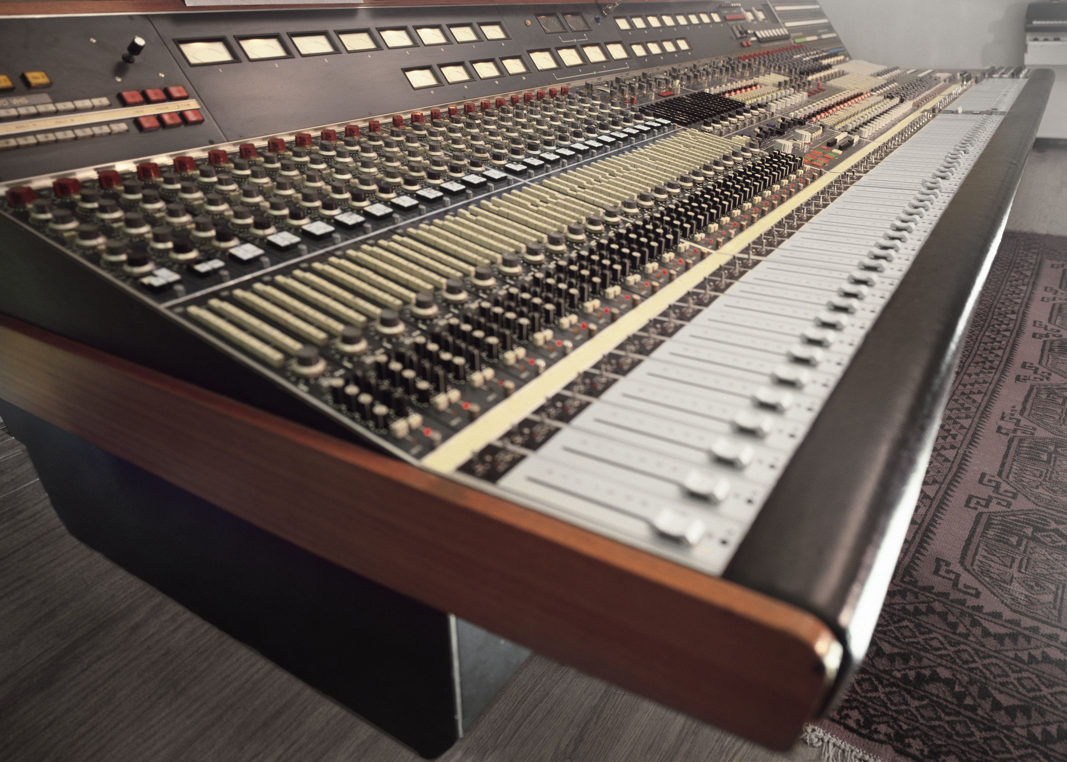 Neve 8048, Svenska Grammofonstudion, Gothenburg Sweden